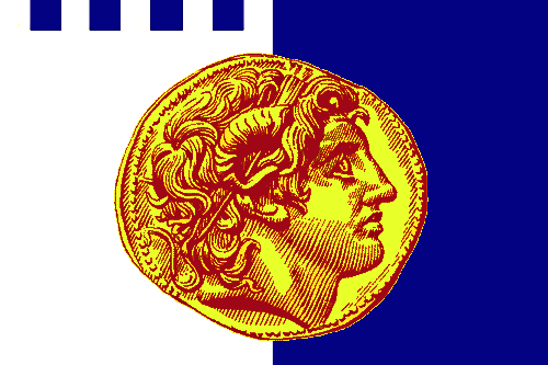 Municipal Flag of Thessaloniki